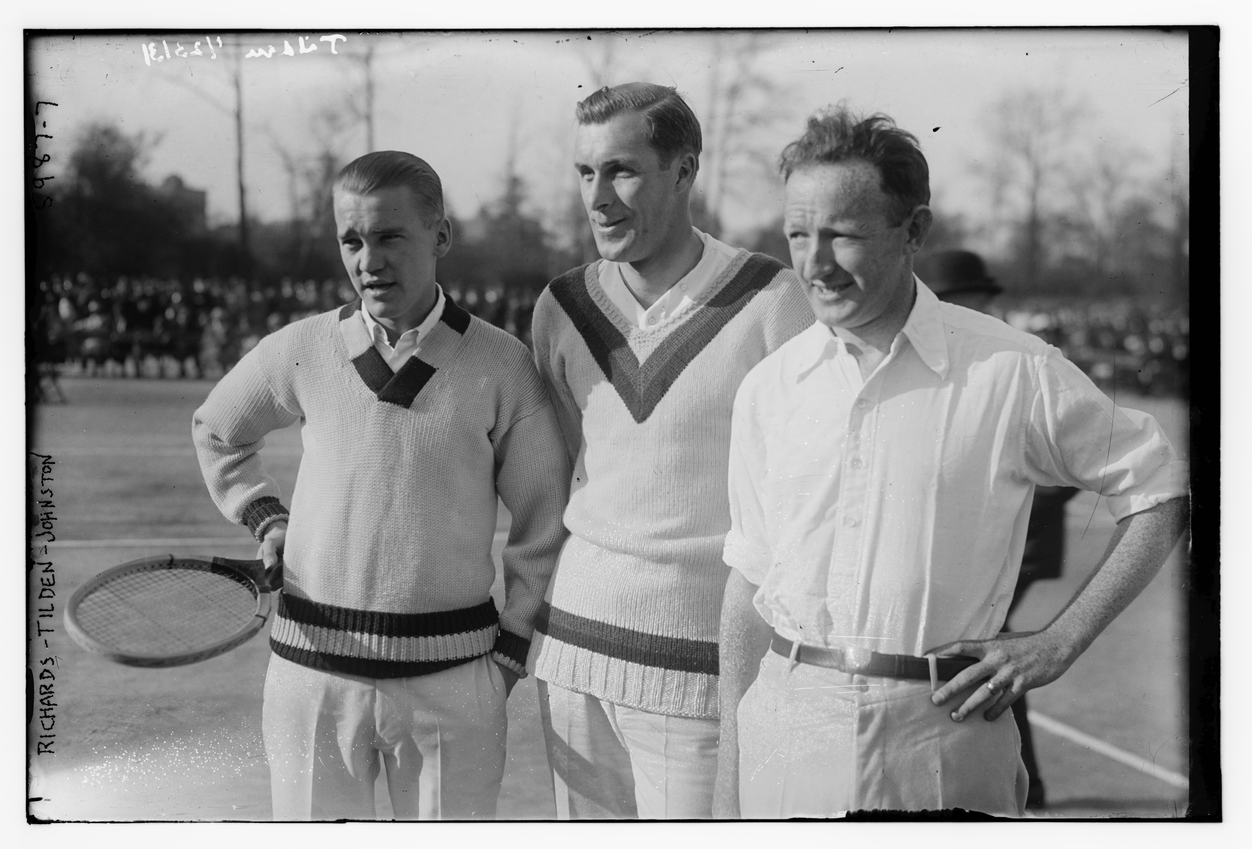 TITLE: Richards - Tilden - Johnston, (tennis) CALL NUMBER: LC-B2- 5987-7[P&P] REPRODUCTION NUMBER: LC-DIG-ggbain-35883 (digital file from original negative) RIGHTS INFORMATION: No known restrictions on publication. MEDIUM: 1 negative : glass ; 5 x 7 in. or smaller. CREATED/PUBLISHED: [no date recorded on caption card] CREATOR: Bain News Service, publisher. NOTES: Title from unverified data provided by the Bain News Service on the negatives or caption cards. Forms part of: George Grantham Bain Collection (Library of Congress). General information about the Bain Collection is available at Temp. note: Batch eight loaded. FORMAT: Glass negatives. REPOSITORY: Library of Congress Prints and Photographs Division Washington, D.C. 20540 USA DIGITAL ID: (digital file from original neg.) ggbain 35883 CONTROL #: ggb2006011296